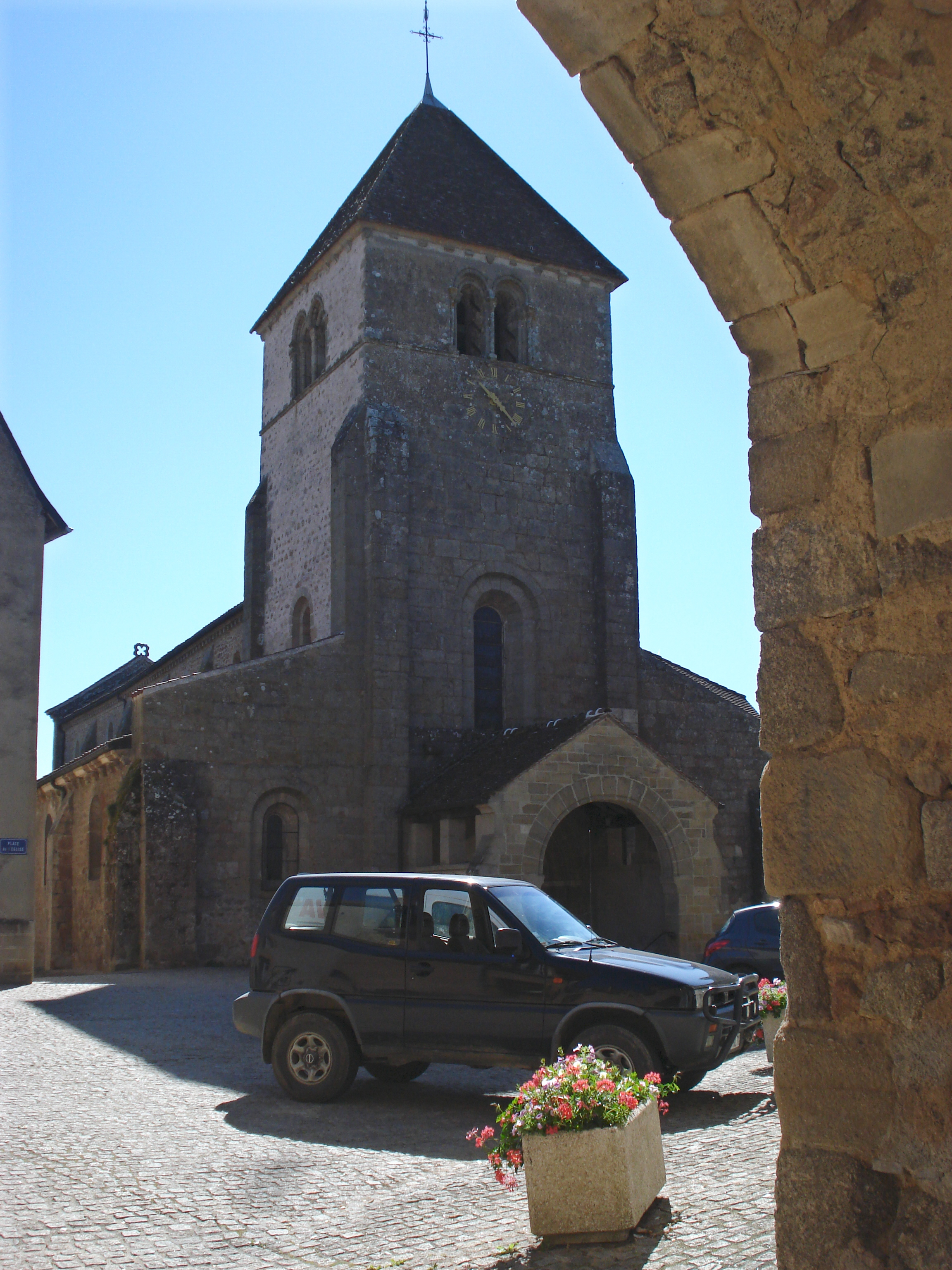 Issy-l'Évêque (Saône-et-Loire),l'église. .